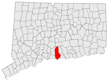 Location of Guilford, Connecticut